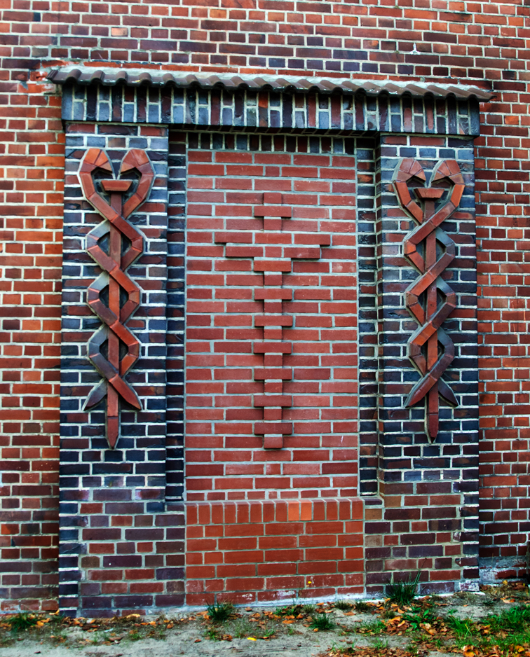 Symbols at the former Johanniter Hospital Genthin - The building was demolished in 2020